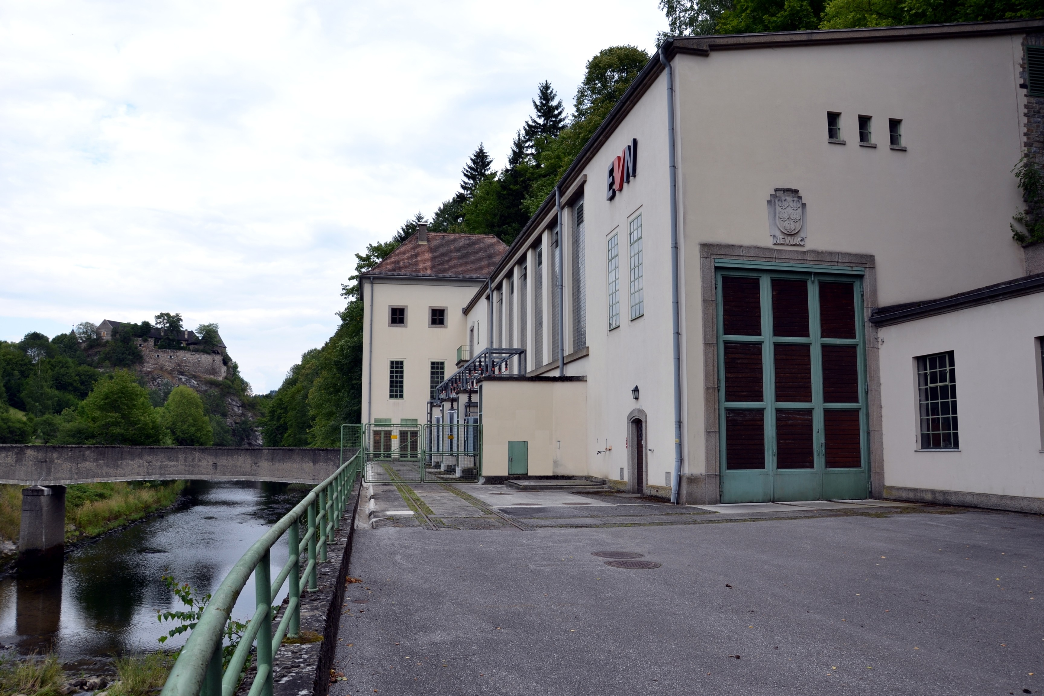 Hydro power station from the Dobra plant